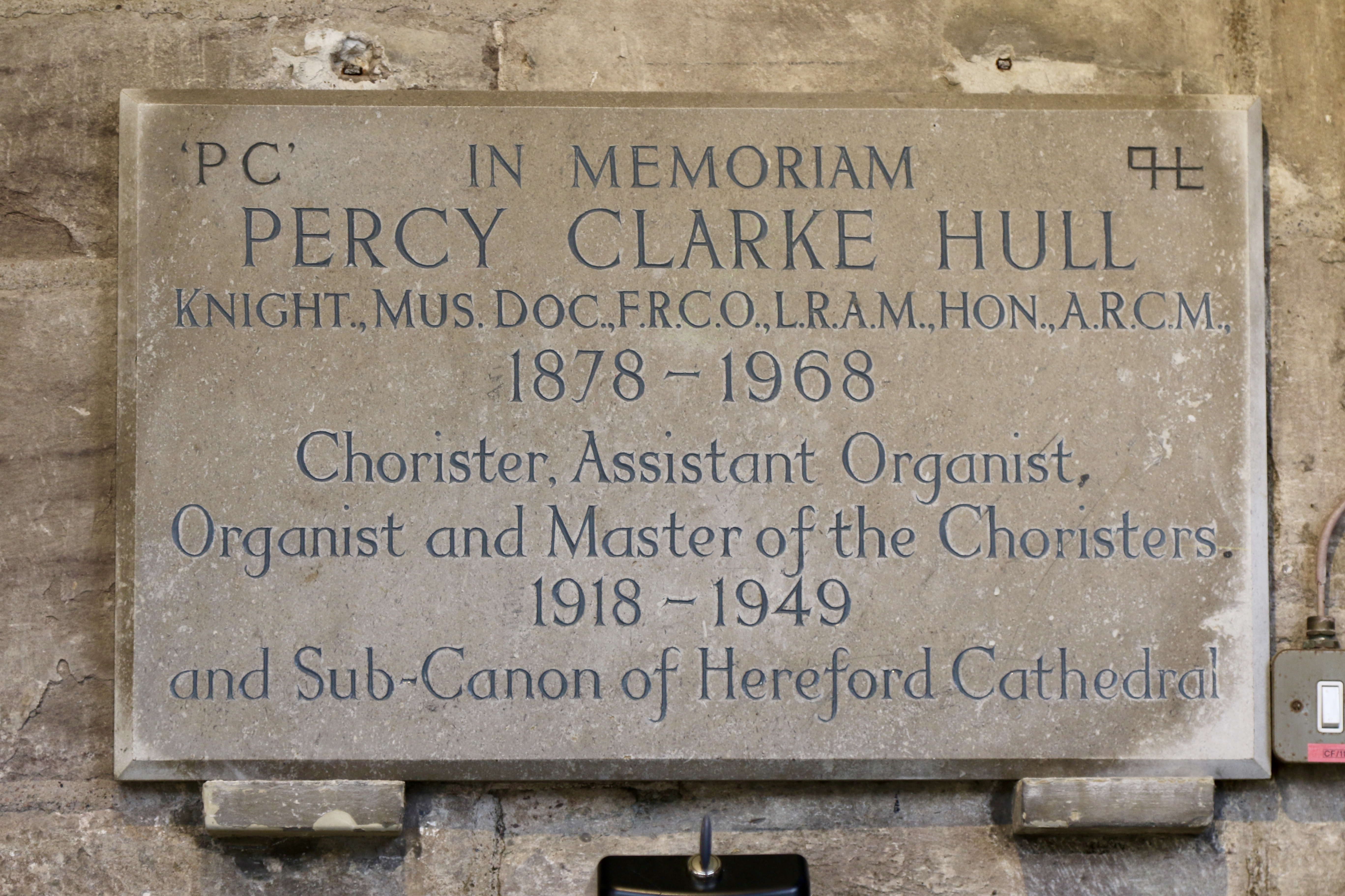 In memorian Percy Clarke Hull, Knight, Mus. Doc., FRCO, LRAM, Hon ARCM. 1878-1968. Chorister, Assistant Organist, Organist and Master of the Choristers 1918-1949 and Sub-Canon of Hereford Cathedral